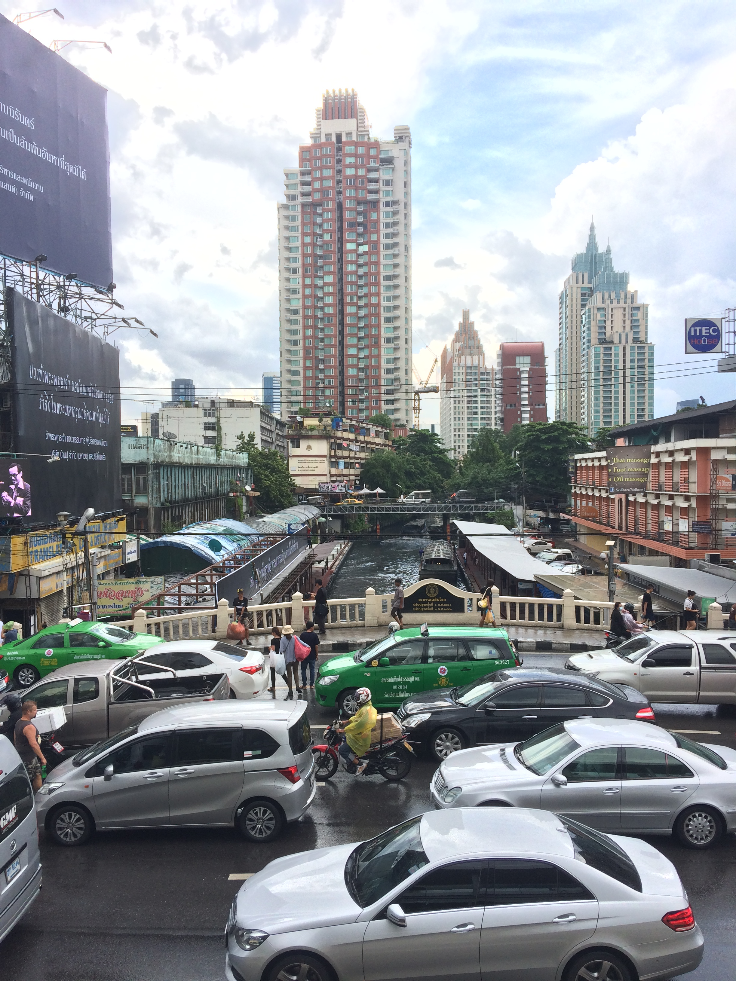 Chalerm Loak Bridge